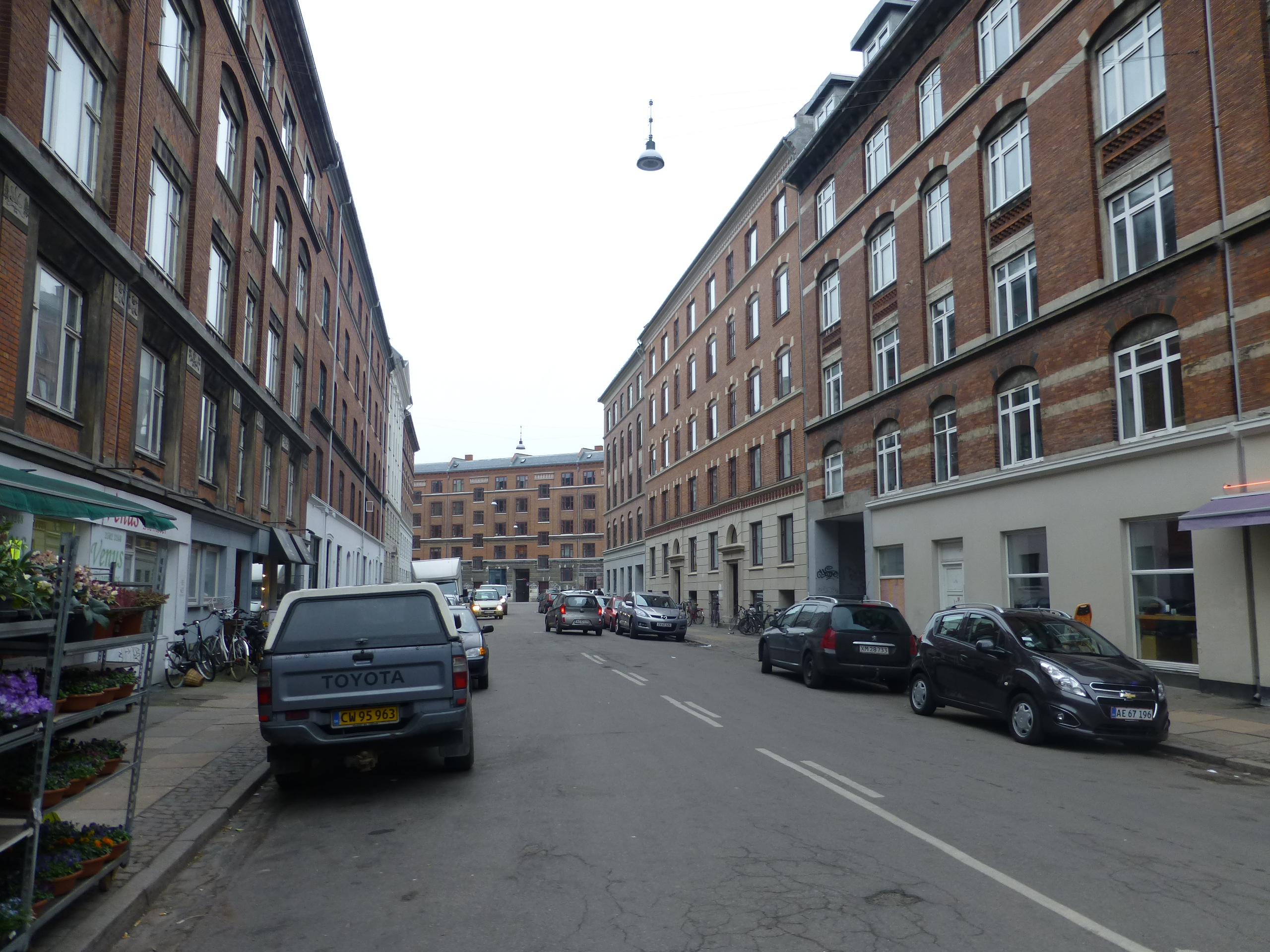 Ydunsgade is a street in Nørrebro in Copenhagen.